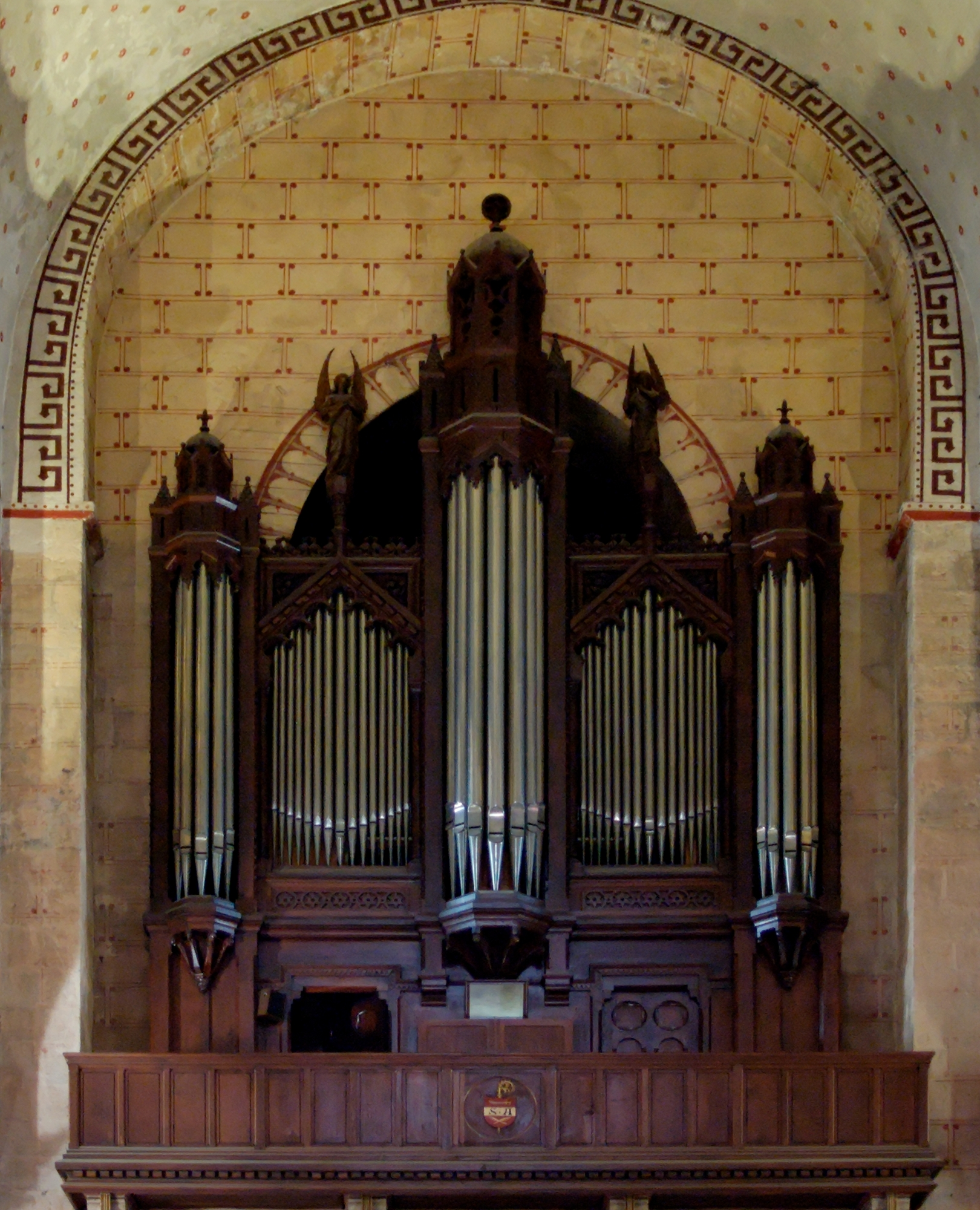 Great organ of the church Saint-Austremonius of Issoire, Auvergne, France. Classified as an historical monument in 1982.